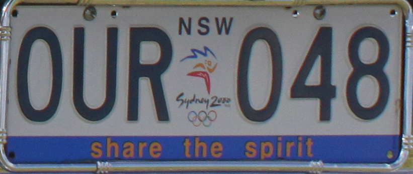 GM Display Day, Penrith Panthers, NSW July 2015